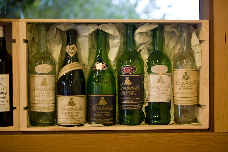 Selection of early Ridge wine bottles.